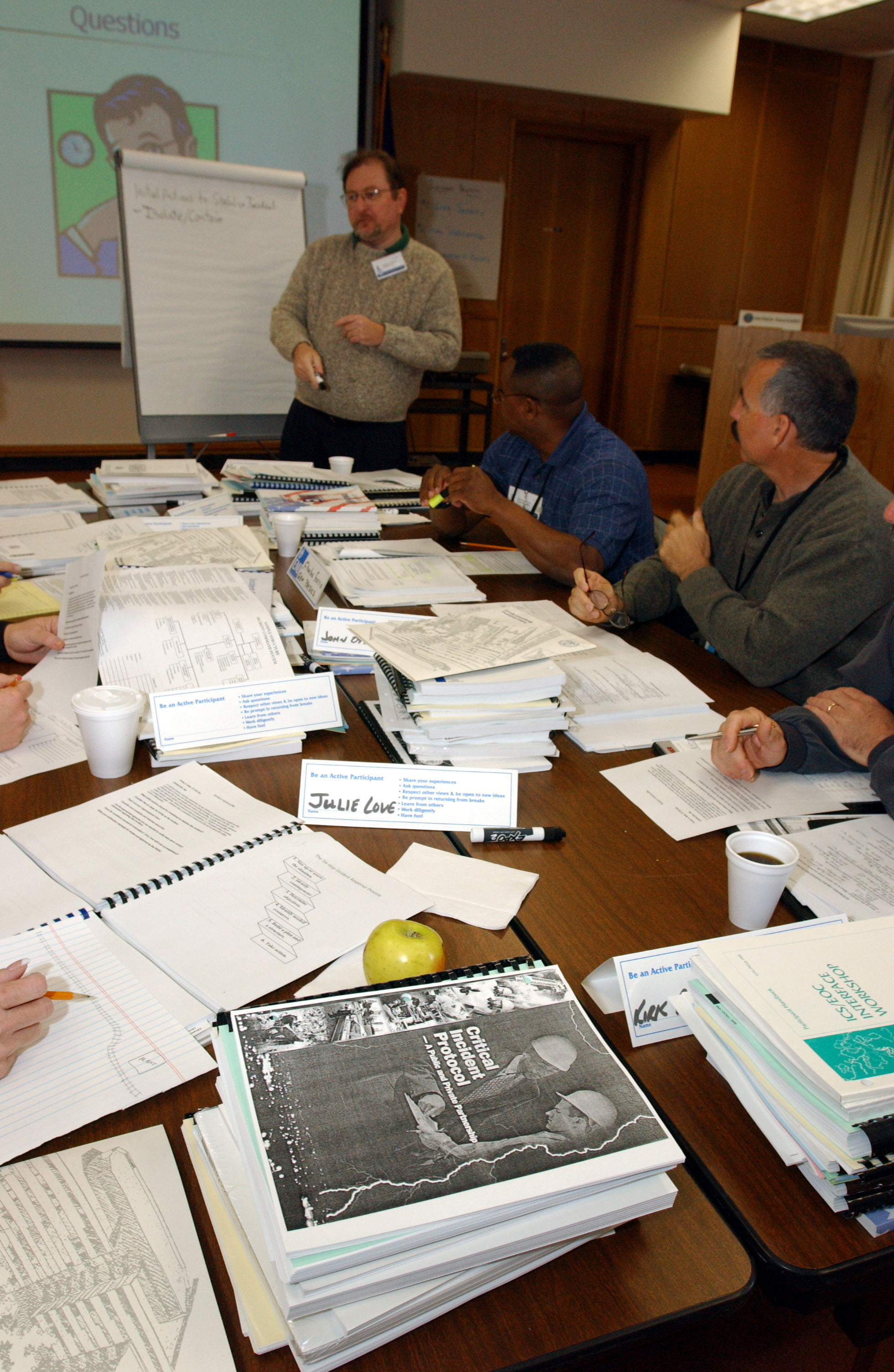 Emmitsburg, MD, March 10, 2003 -- An Incident Command System course is held at FEMA's National Emergency Training Center, one of dozens of courses offered there each year for first responders, emergency managers and educators. Photo by Jocelyn Augustino/FEMA News Photo